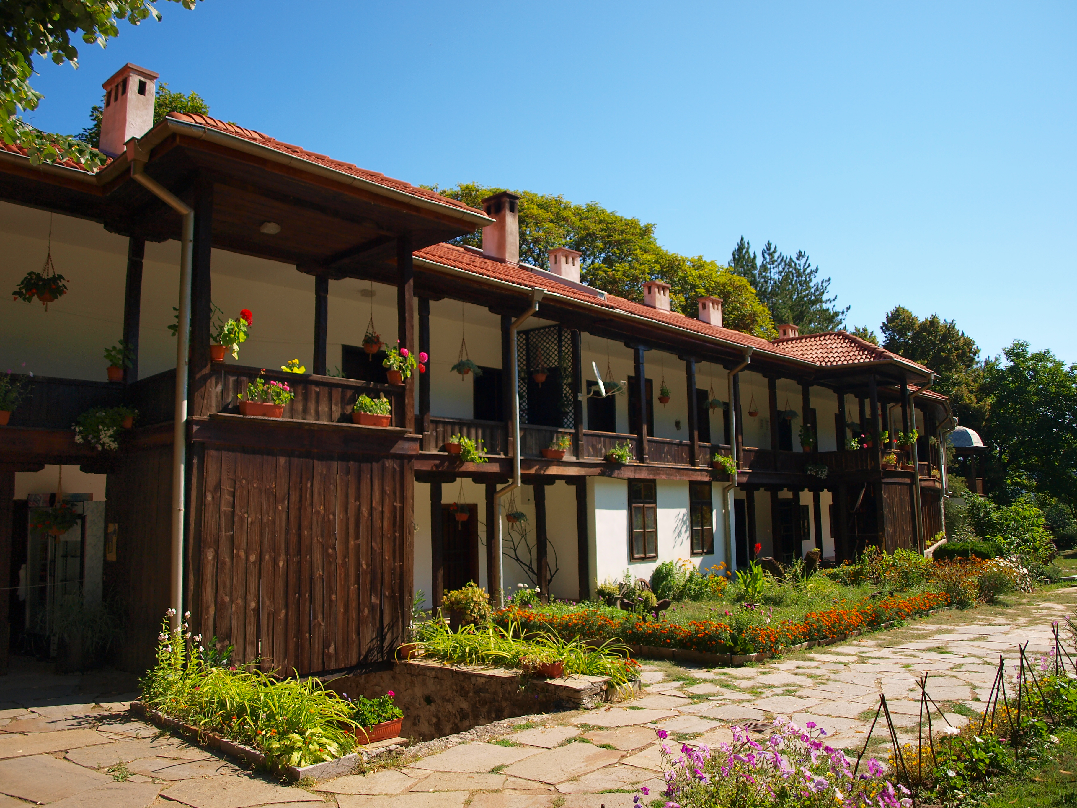 Residential buildings in the courtyard of the Zemen Monastery near Zemen, Bulgaria